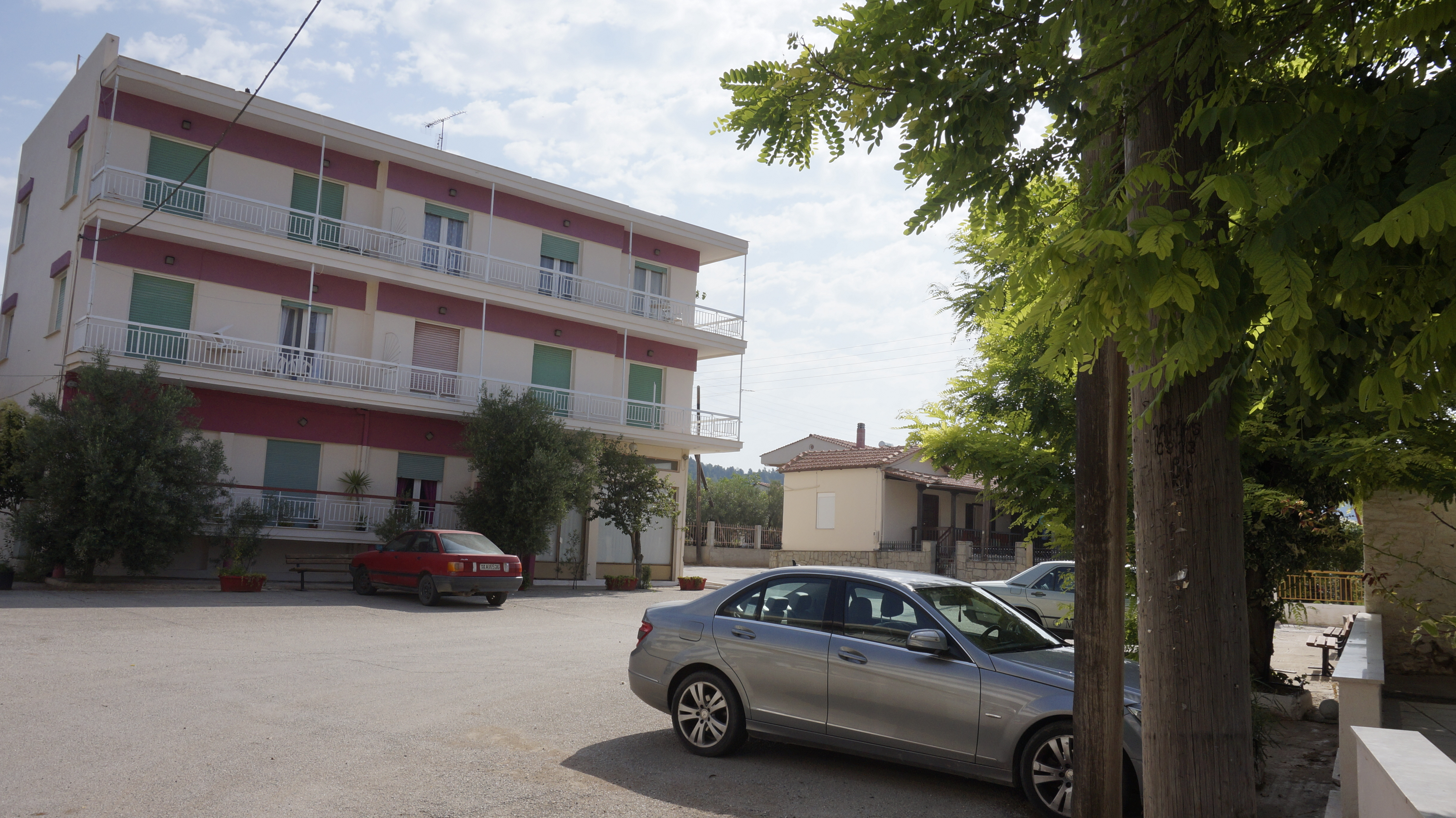 Yerakini village central square as seen from south, Chalkidiki, Macedonia, Greece, Jun 2014